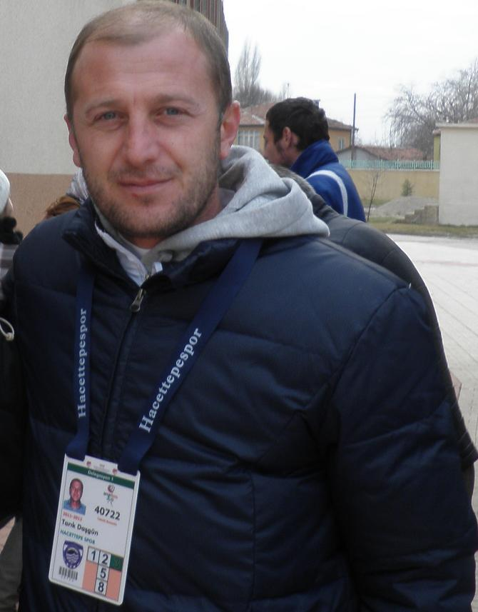 Tarık Daşgün, is a retired Turkish professional footballer